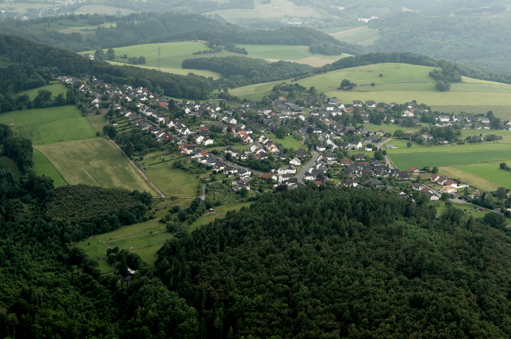 Arnsberg: Wennigloh (Fotoflug Sauerland Nord) The making of this document was supported by the Community-Budget of Wikimedia Germany.